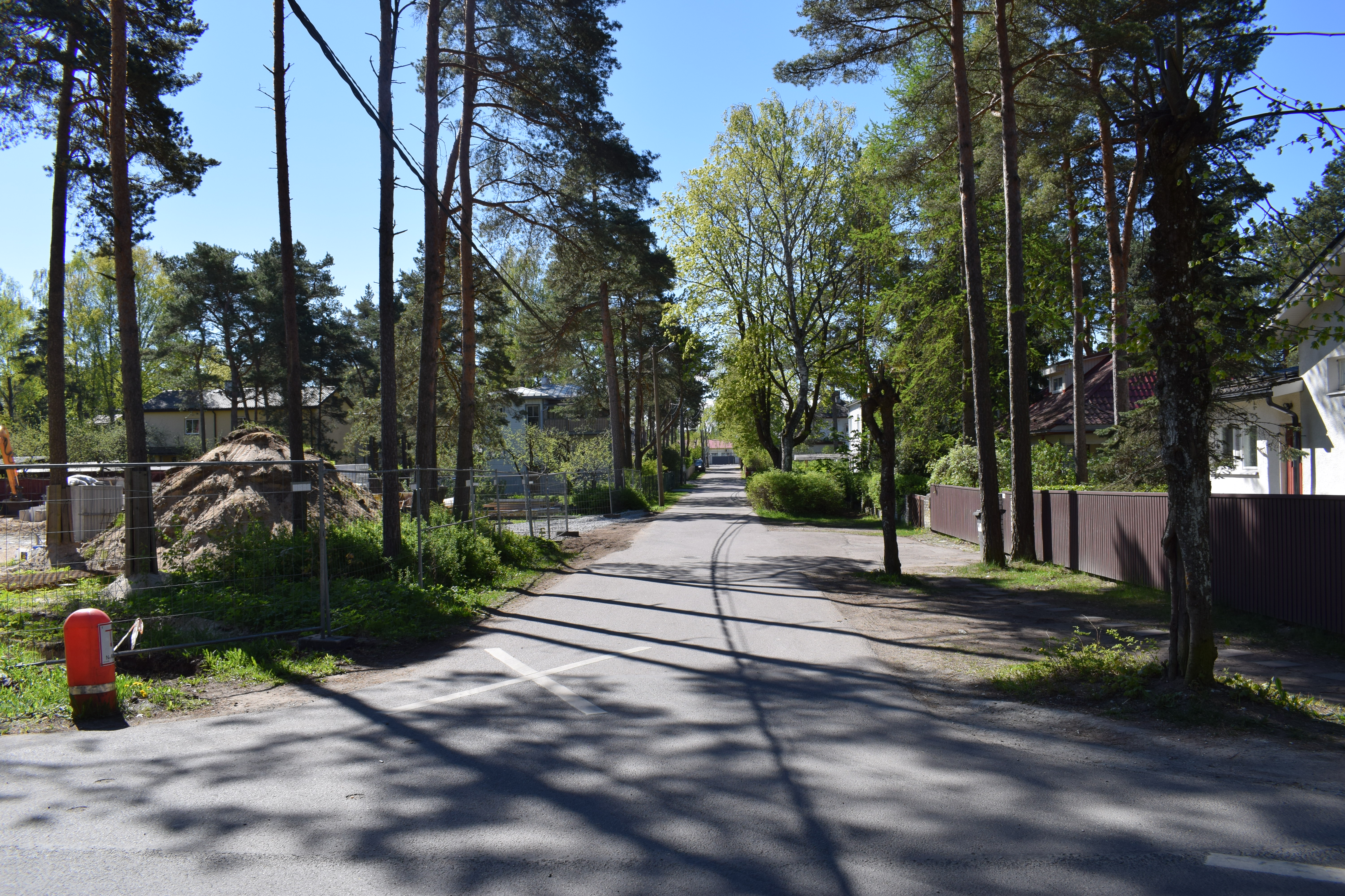 Pidu street